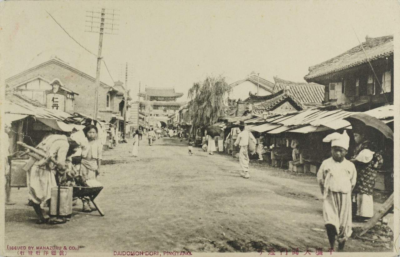 Taedongmun Street, Pyongyang